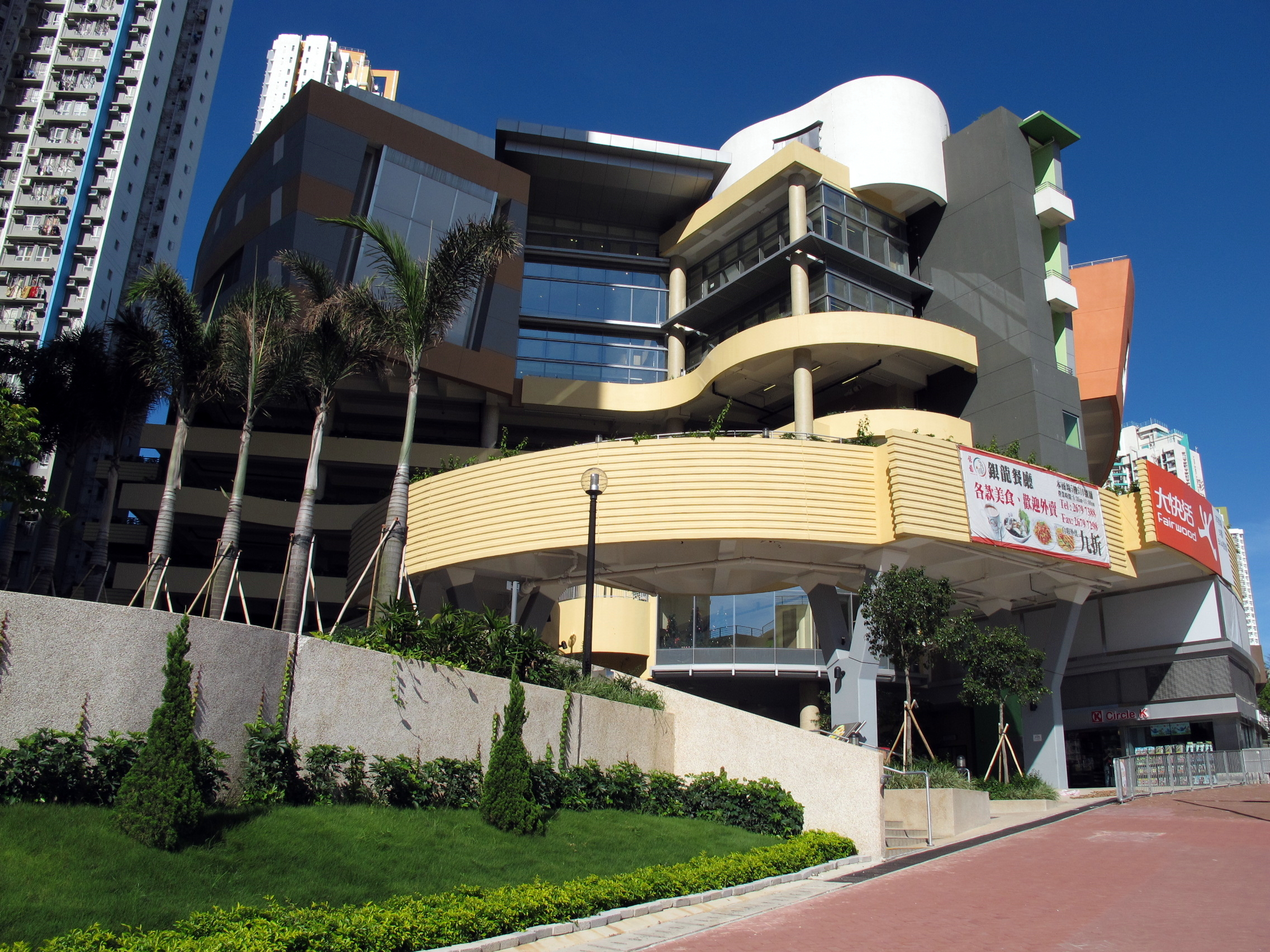 Choi Tak Shopping Arcade 彩德商場